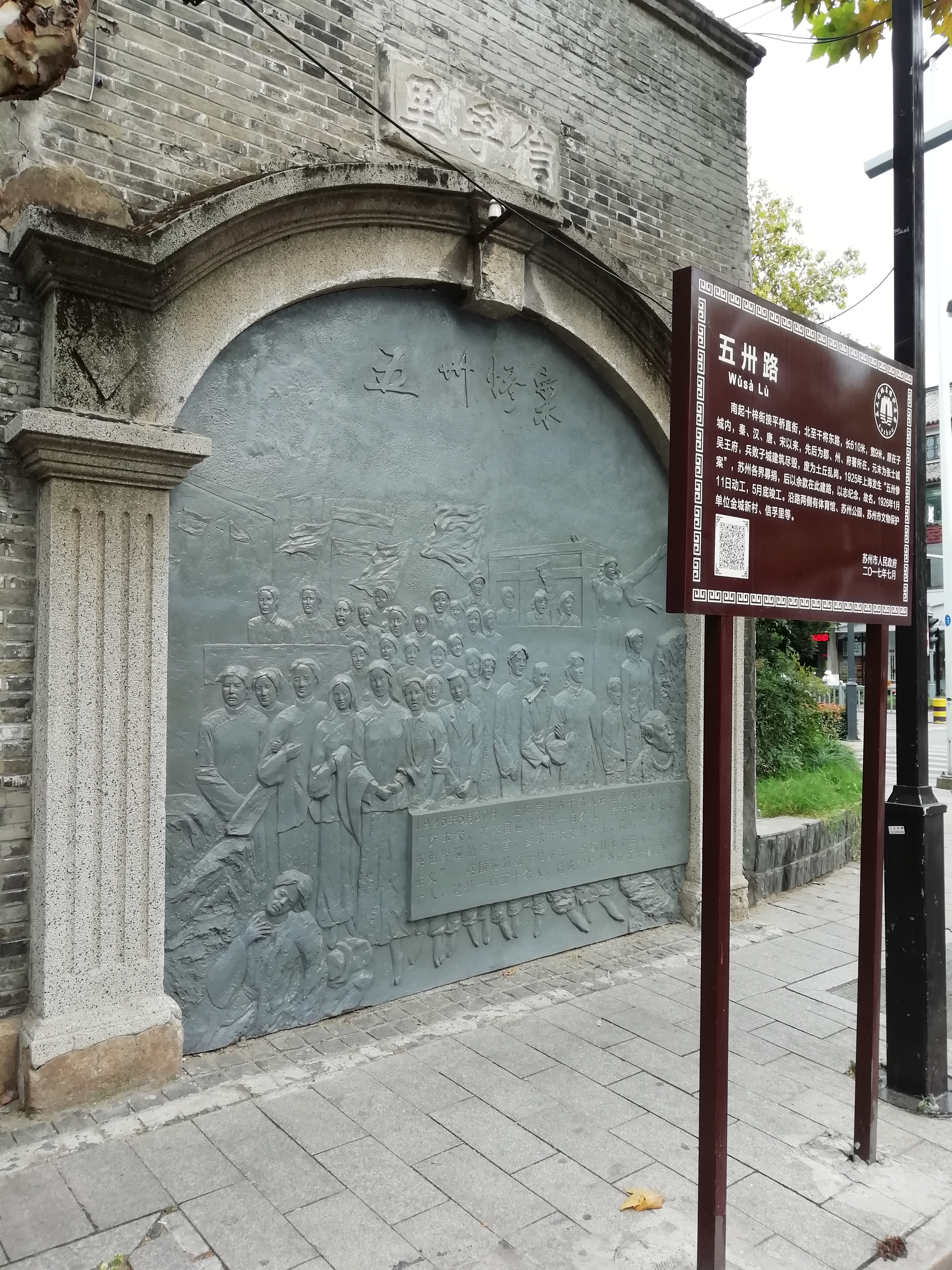 May Thirtieth Movement Art Wall on Wusa Road, Gusu District, Suzhou. 中文（中国大陆）: 苏州市姑苏区五卅路的五卅运动（五卅惨案）艺术墙